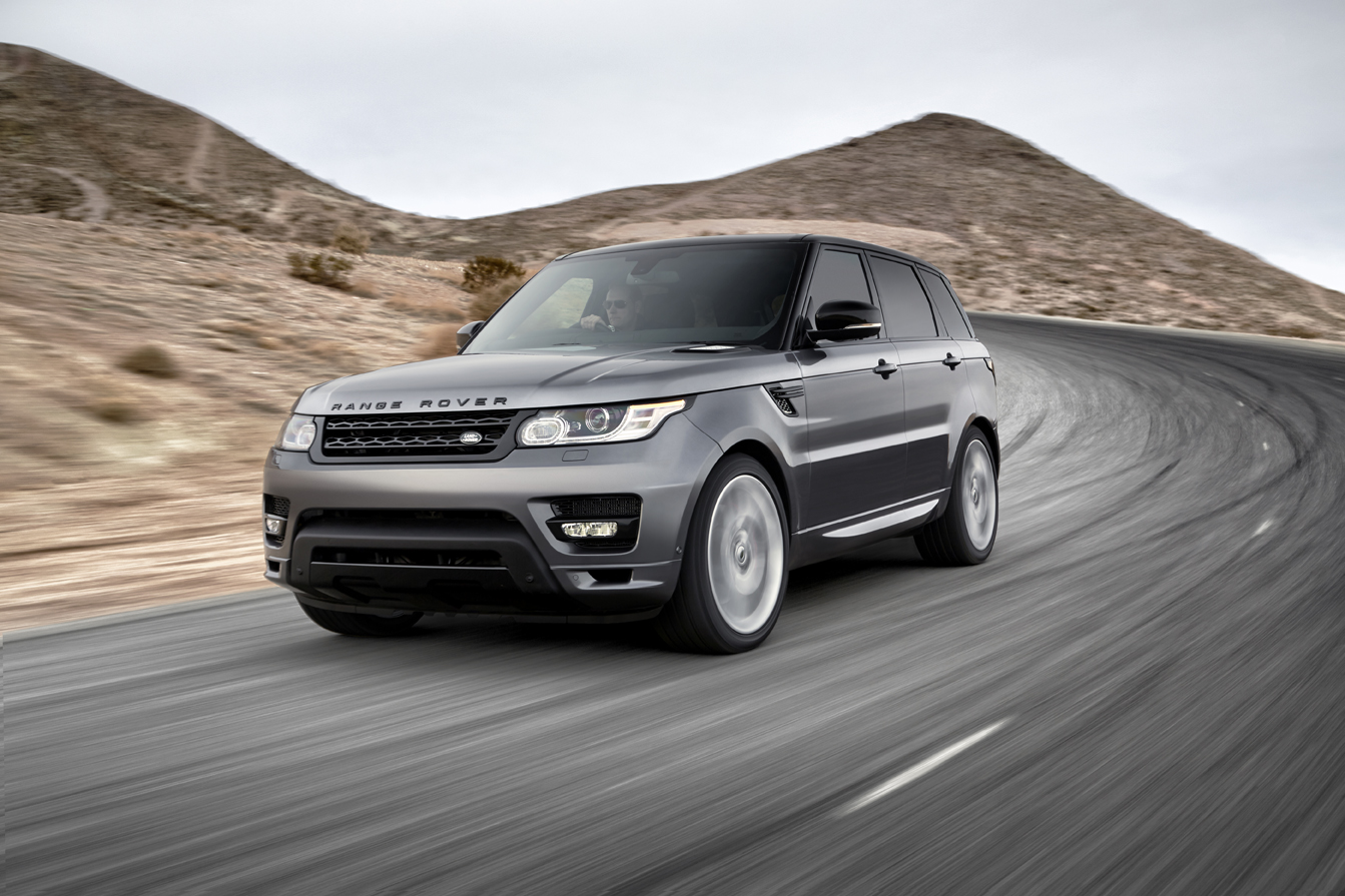 The All-New Range Rover Sport, revealed to the world today on the streets of New York, is the ultimate premium sports SUV – the fastest, most agile and responsive Land Rover ever.